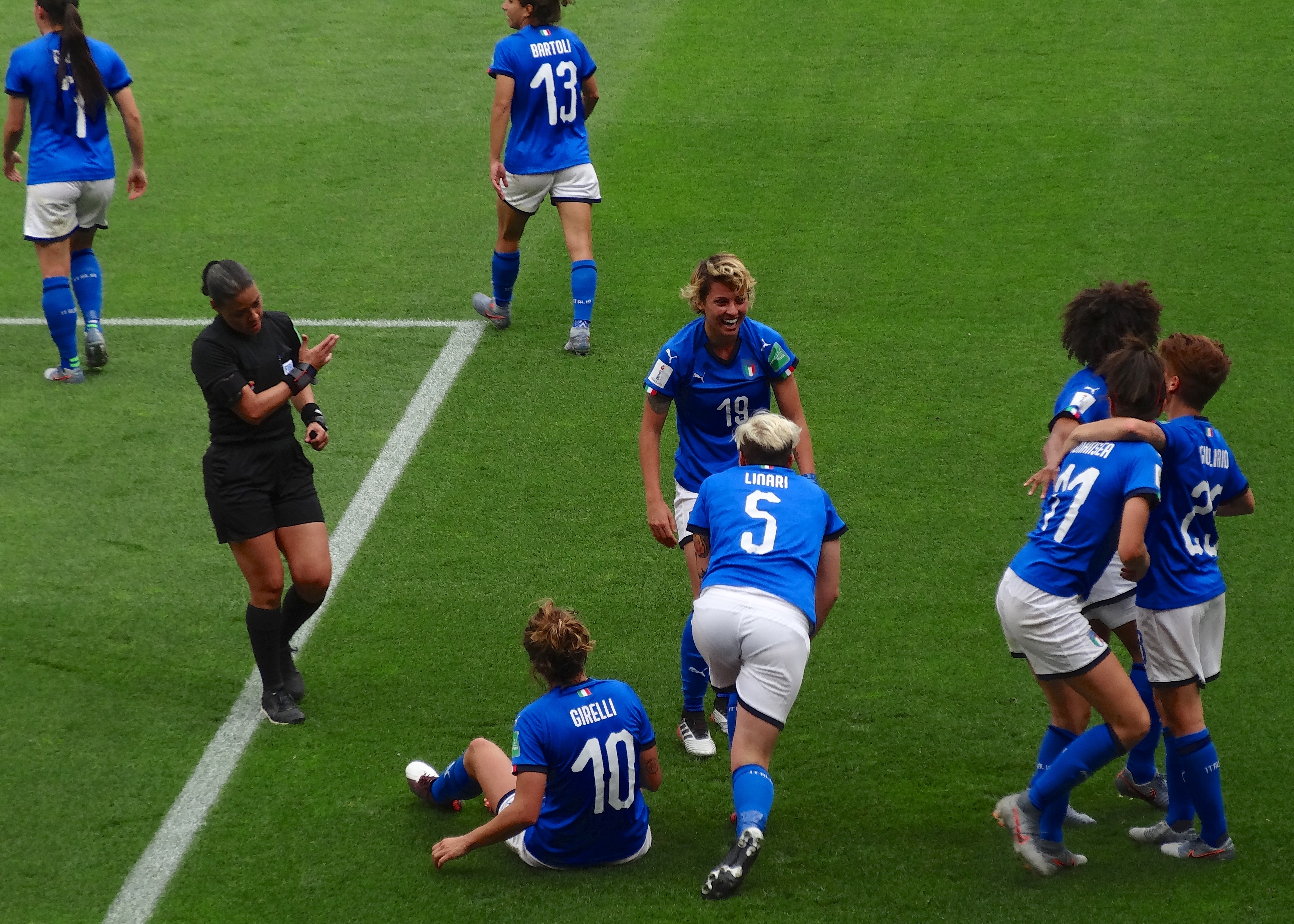 Italia Team (Women World Cup France 2019)